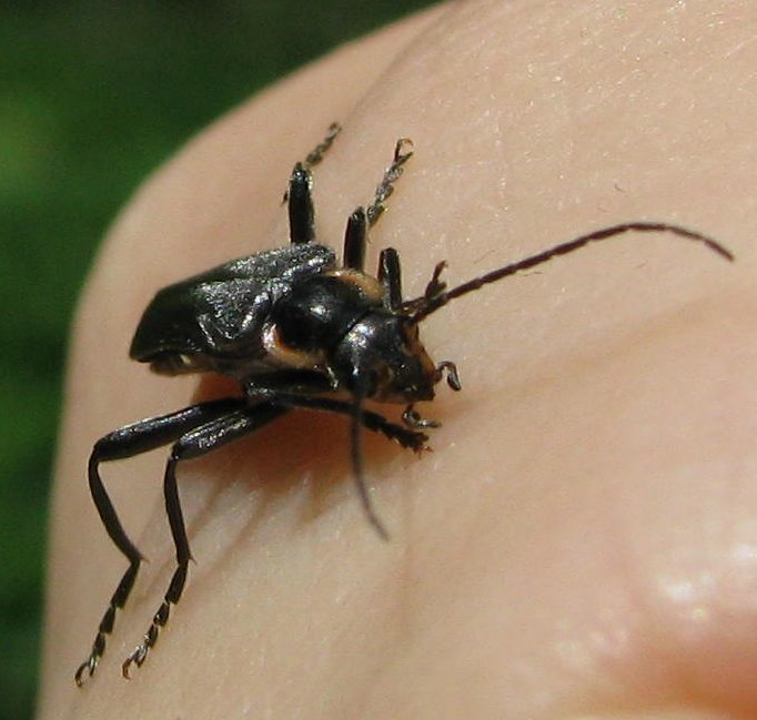 Cantharis obscura (Cantharidae) found in Kassel (Germany) May 2013